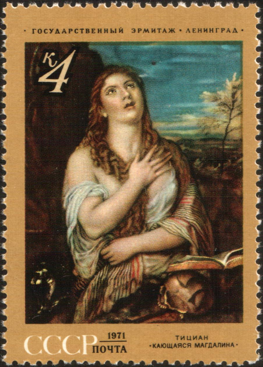 USSR stampː Penitent Magdalene (Titian). Seriesː Foreign Paintings in the Soviet Union Museums